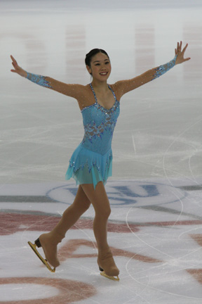 Ladies' single of the 2007-2008 Grand Prix of Figure Skating Final - Yukari Nakano